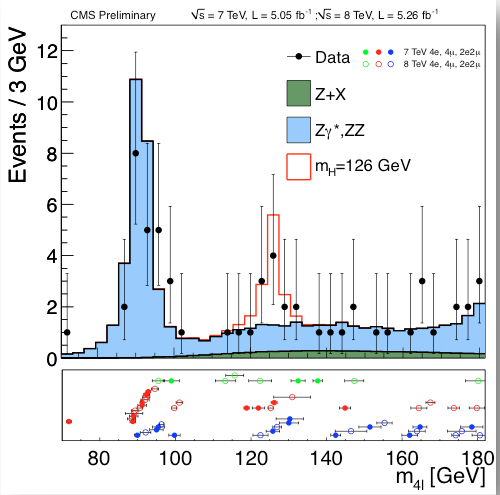 The CMS experiments presented on July 4th 2012 the status of the Standard Model Higgs search. All the plots presented that day where done using ROOT.